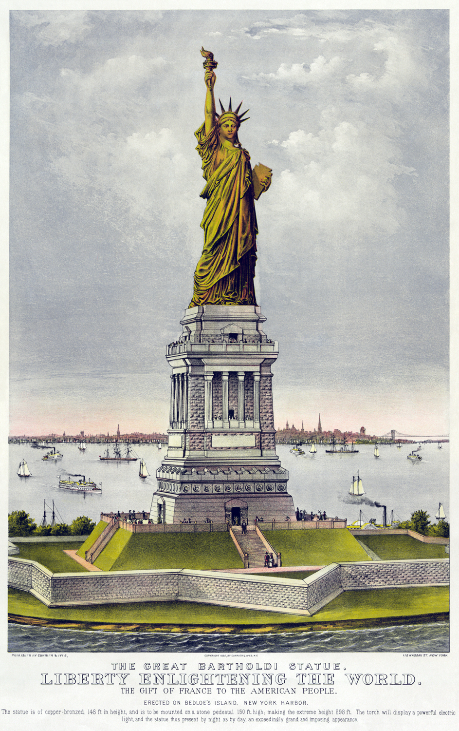 The great Bartholdi statue, liberty enlightening the world: the gift of France to the American people. 1 print : chromolithograph. Speculative depiction published the year before the statue was erected. In this depiction the statue faces south; it actually faces east.